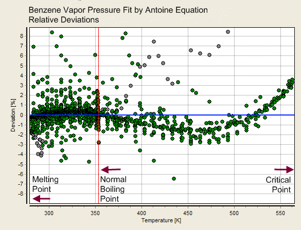 Deviation diagram of a fit of the parameters of the Antoine equation to experimental data for Benzene from the Dortmund Data Bank